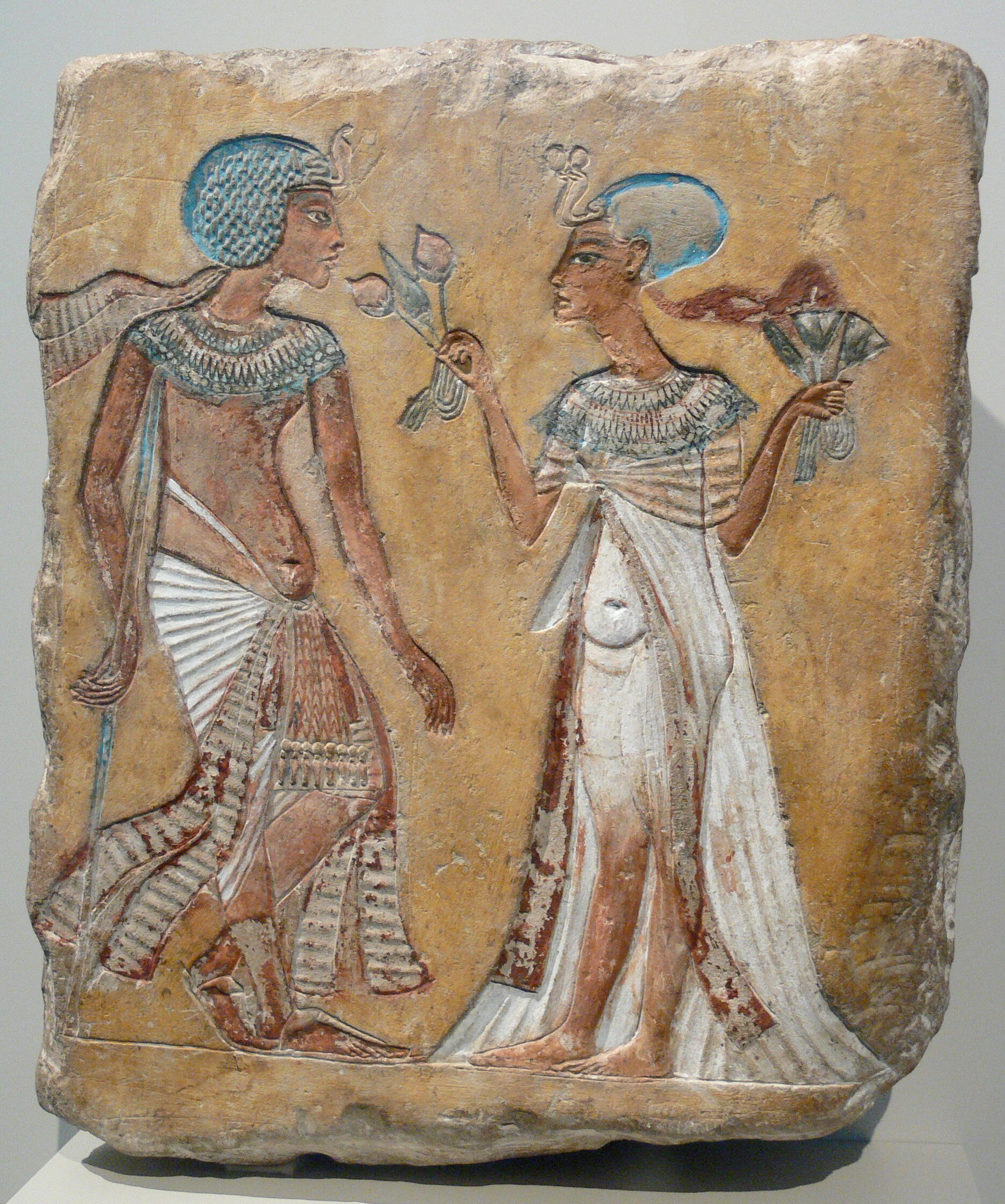 Artist's sketch: Walk in the Garden; limestone; New Kingdom, 18th dynasty, c. 1335 BC. Egyptian Museum Berlin, Inv. no. 15000 (donated by James Simon in 1920). Information from Image:ReliefOfARoyalCouple.png description page: „A relief of a royal couple in the Amarna style; figures have variously been attributed as Akhenaten and Nefertiti, Smenkhkare and Meritaten, or Tutankhamen and Ankhesenamun; relief dates to after the former king's death.“